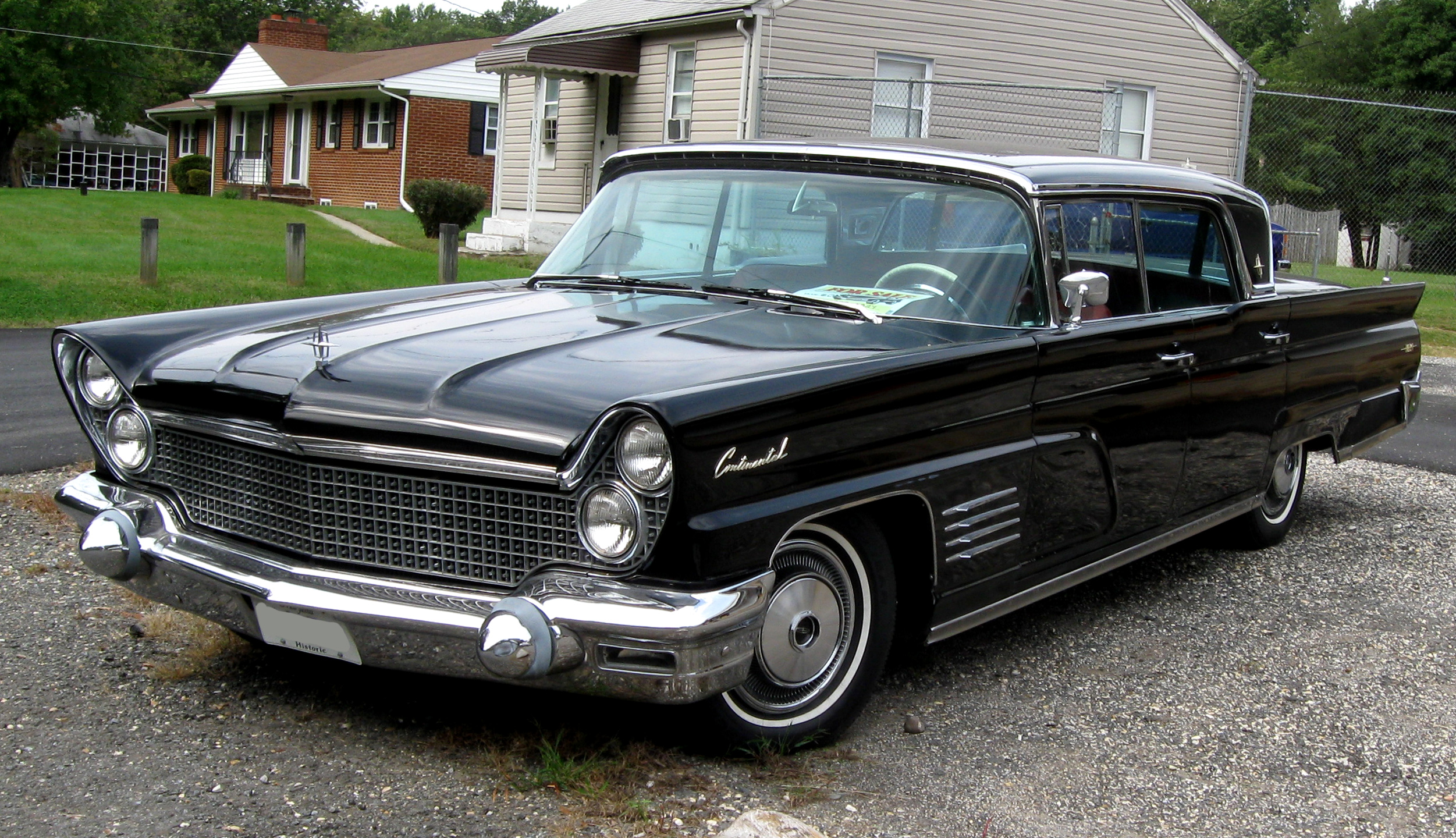 1960 Lincoln Continental Landau (Hardtop-) Sedan photographed in Indian Head, Maryland, USA.